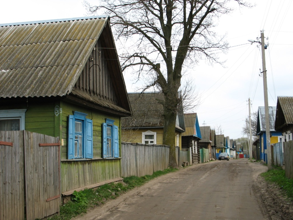 Tatar quarter, Smilavichy, Belarus